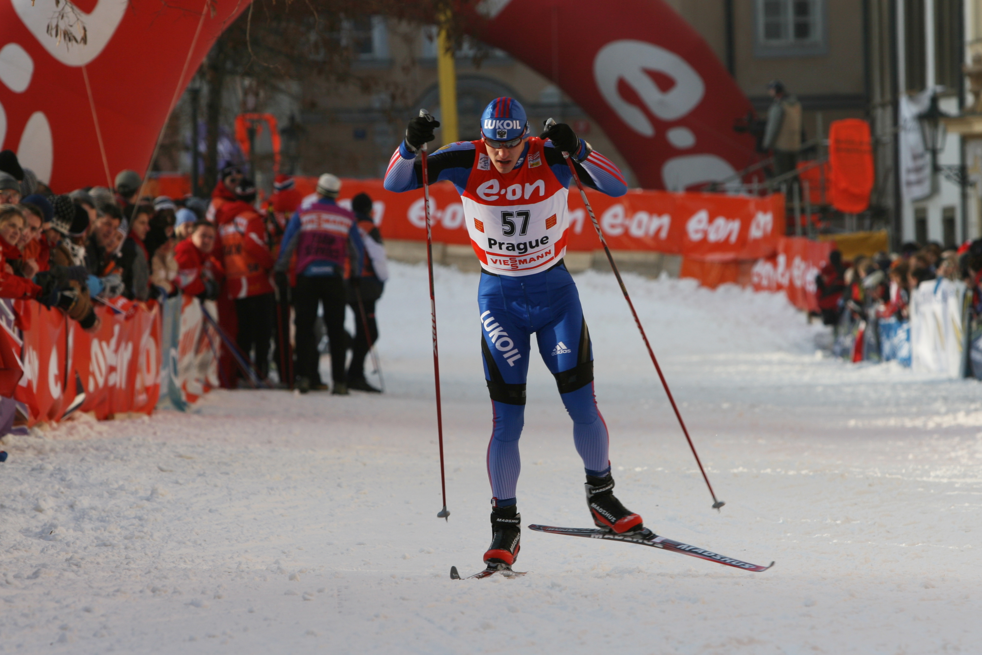 Nikolay Morilov in the qualification of Tour de Ski in Prague